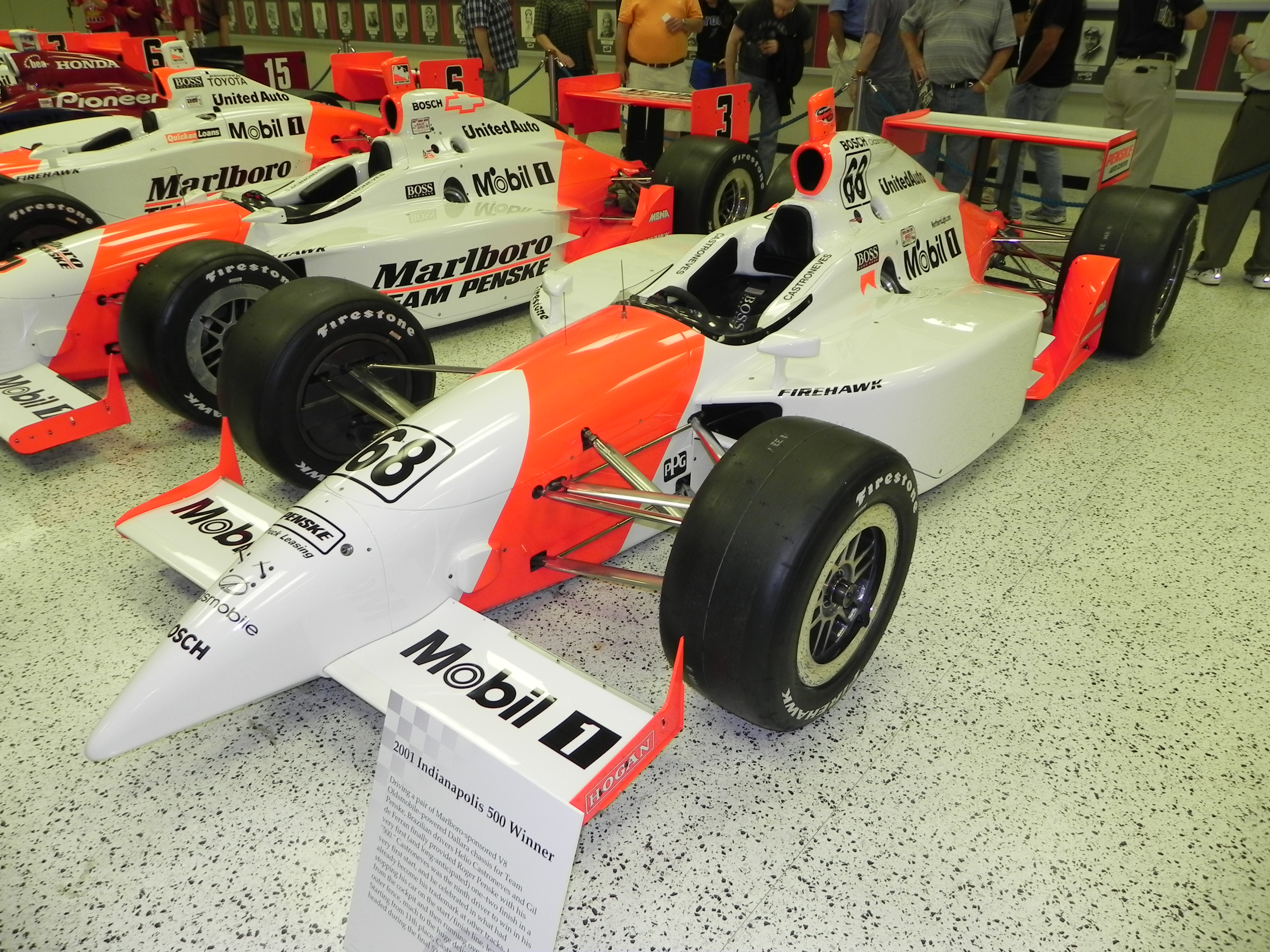 Image of the winning car of the 2001 Indianapolis 500 (Helio Castroneves). Photo was taken at the Indianapolis Motor Speedway Hall of Fame Museum, during the month of May 2011, at the 100th Anniversary "Ultimate Indianapolis 500 Winning Car Collection."